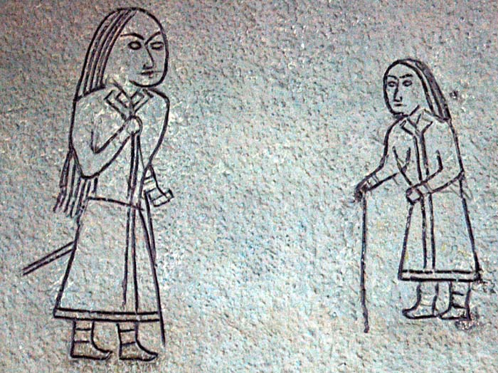 Gokturk petroglyphs from Mongolia (6th to 8th cent. AD)